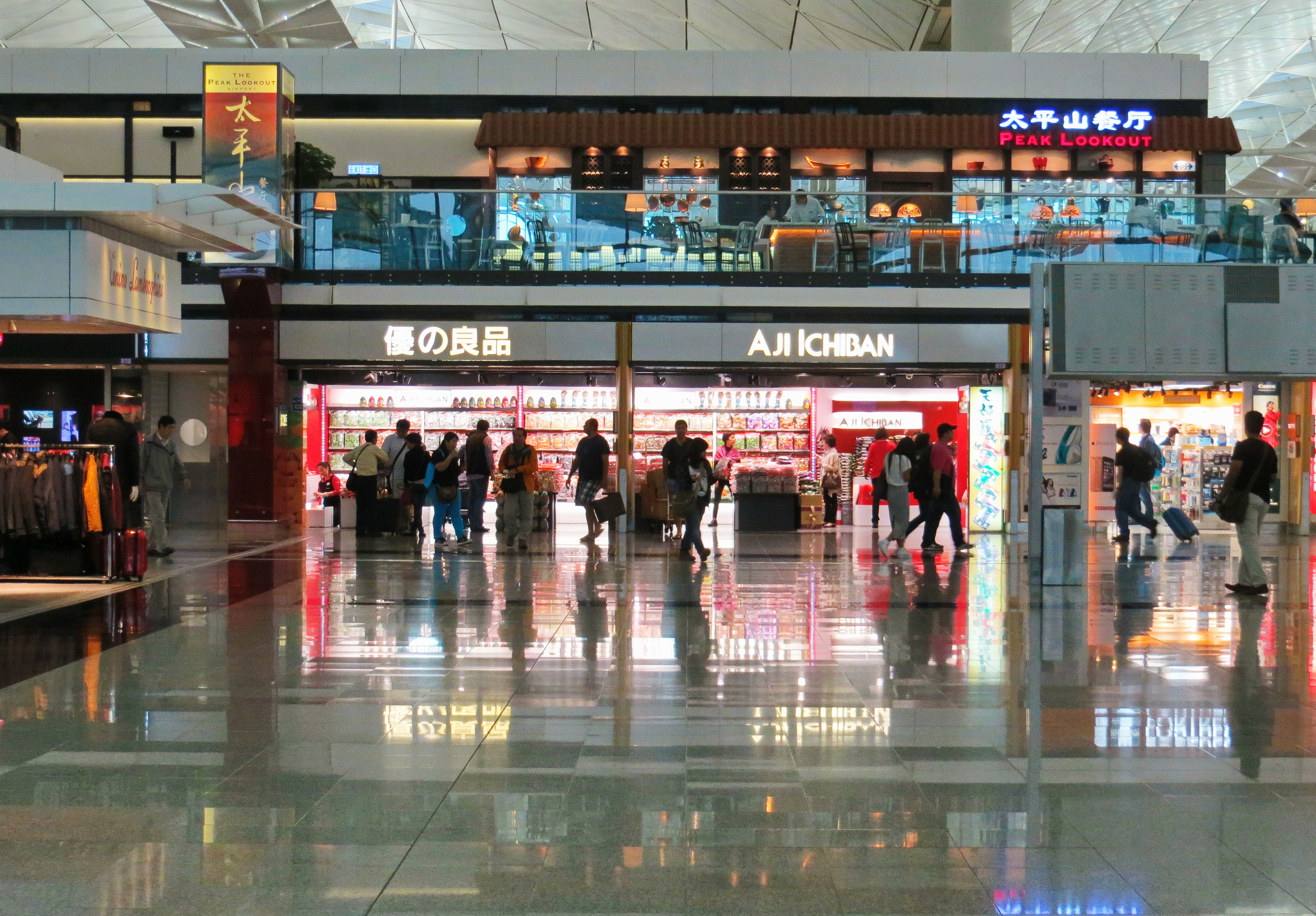 Aji Ichban, Hong Kong International Airport branch, Hong Kong.